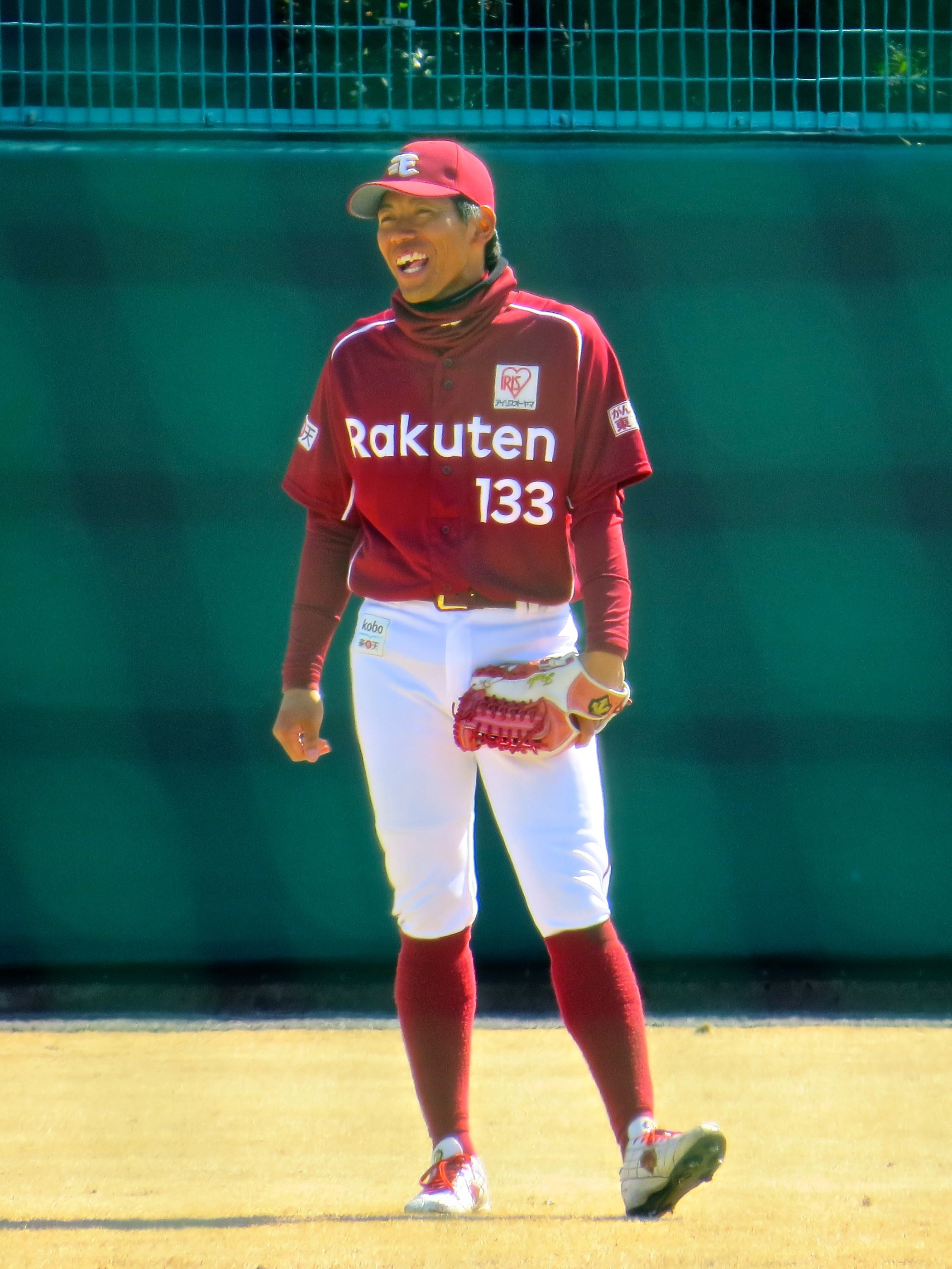 Takahiro Jimbo, outfielder of the Tohoku Rakuten Golden Eagles, at Lotte Urawa Baseball Ground.